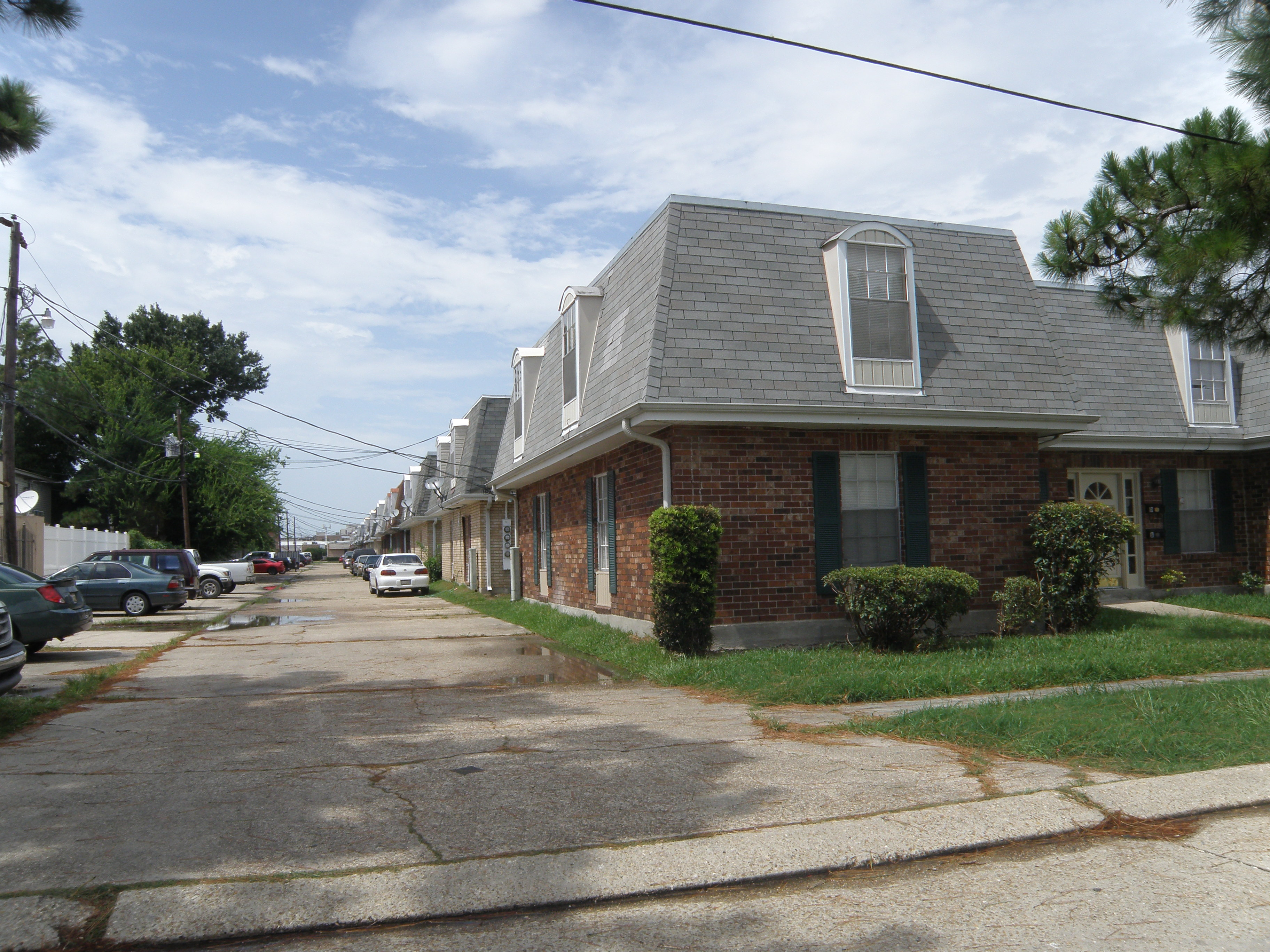 A block of modern mansard-topped residences in New Orleans